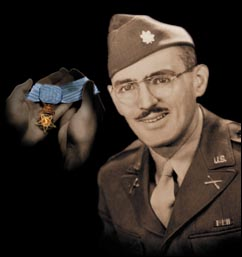 Depicted person: John U. D. Page – American army officer